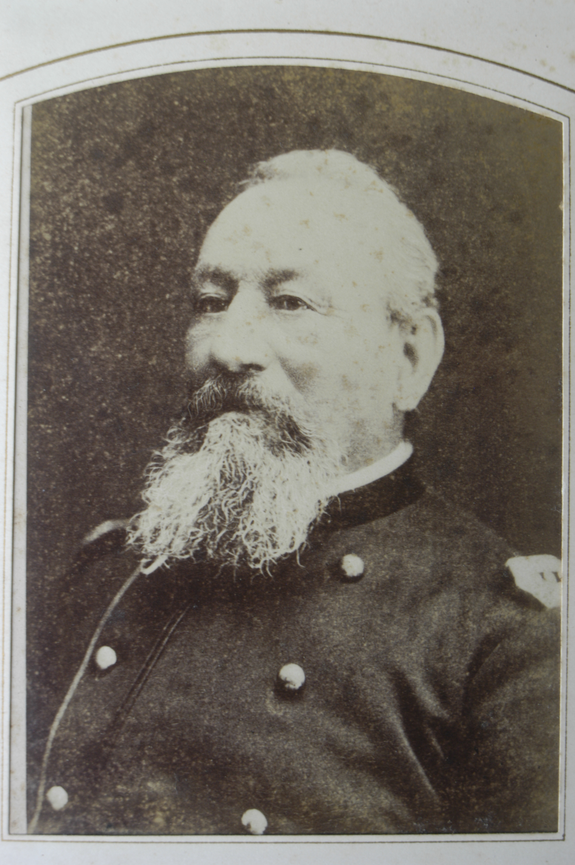 Photo (by me, R. de SalisRodolph (talk) 01:14, 4 July 2014 (UTC)) of an 1880's photo of Colonel Jakob von Salis-Jenins (1815-1886).